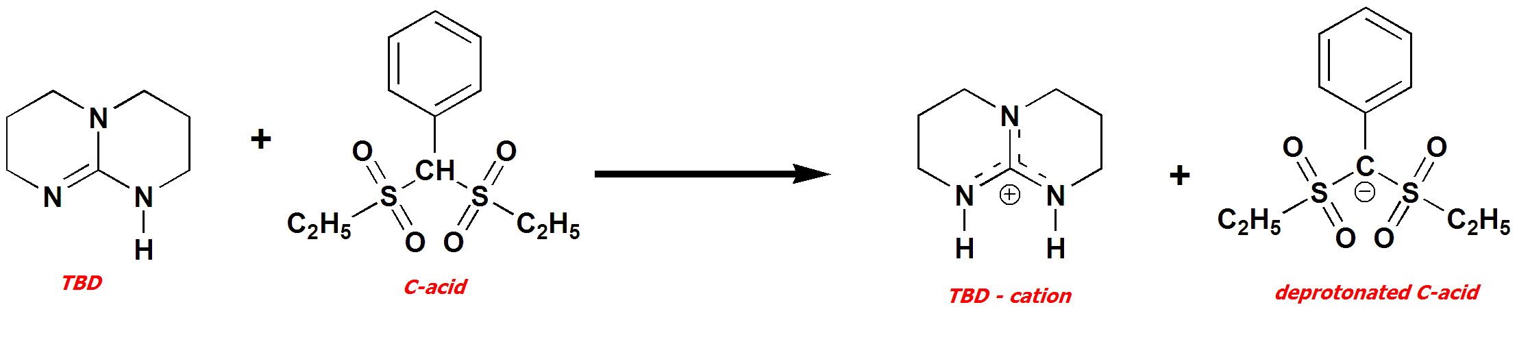 Deprotonation of C-acid by TBD N-base